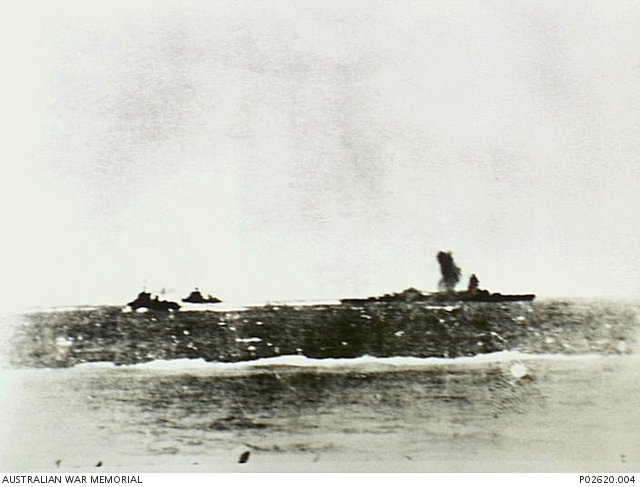 AWM Caption: Java Sea. 15 February 1942. Bomb spray surrounds the Royal Netherlands cruiser, Java, during a Japanese air attack. The Dutch ship was one of the ships involved in the operations against the Japanese in the Java Sea. She was hit by a torpedo from Japanese Cruiser Nachi, blew up and sank on the 27 February. (Donor J. King)